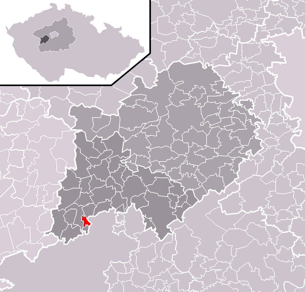 Location of Chaloupky municipality within Beroun District and administrative area of Hořovice as a Municipality with Extended Competence.